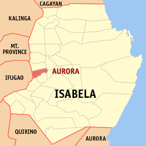 Map of Isabela showing the location of Aurora